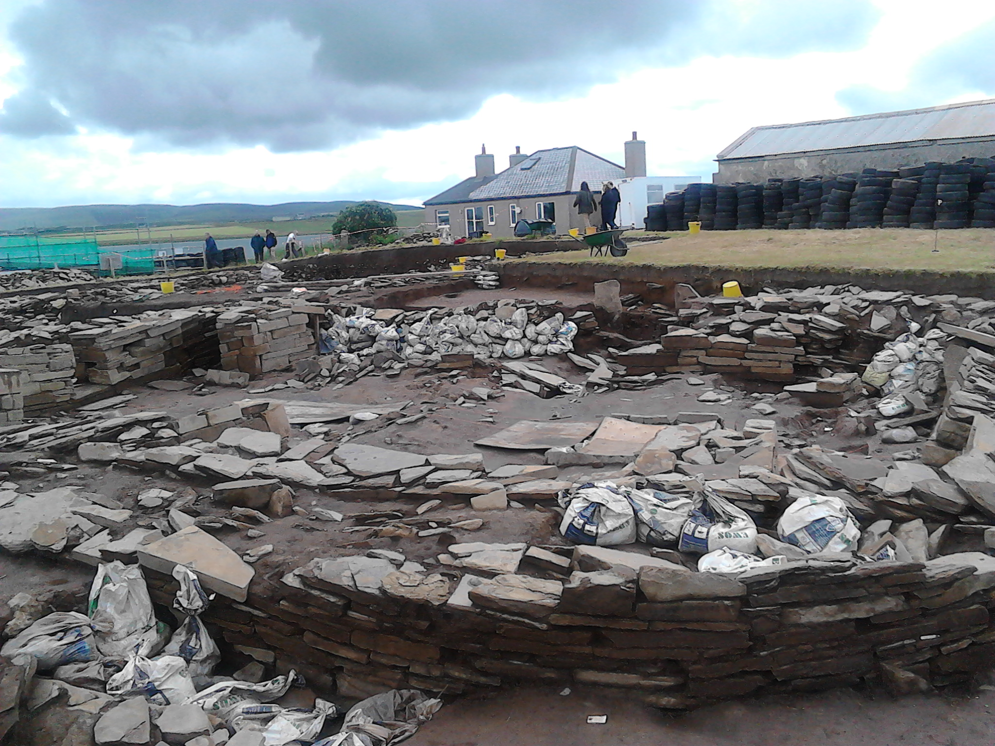 Ness of Brodgar dig 6.7.16. I'm looking northeast across structure #12. Neil Oliver in background again.